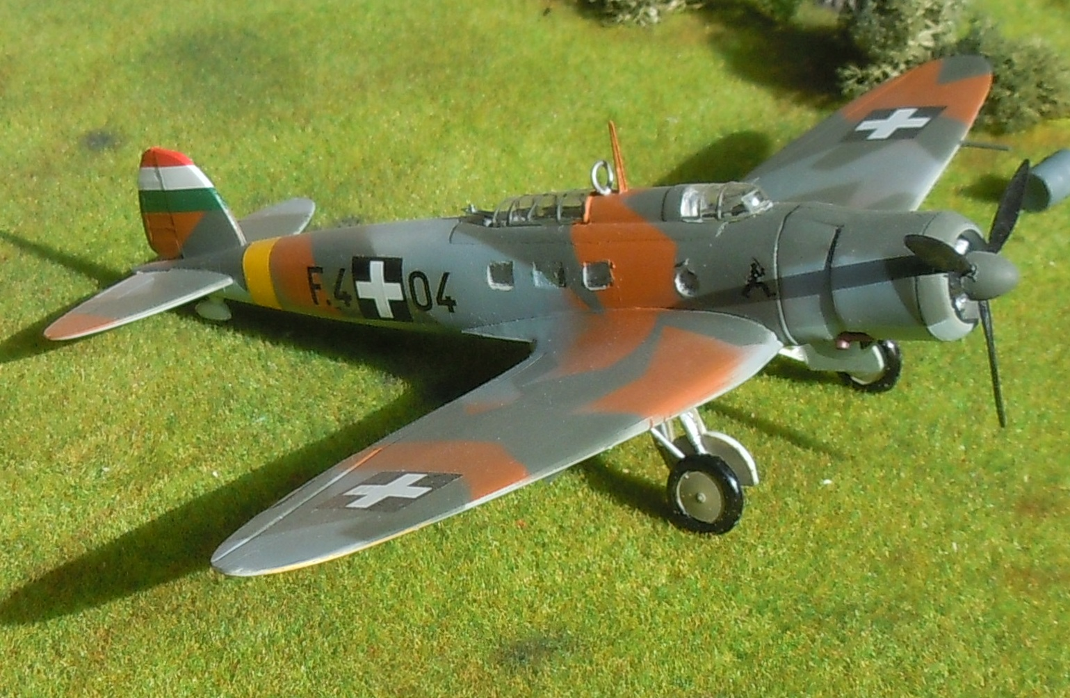 Model of a Heinkel He 170. The source is